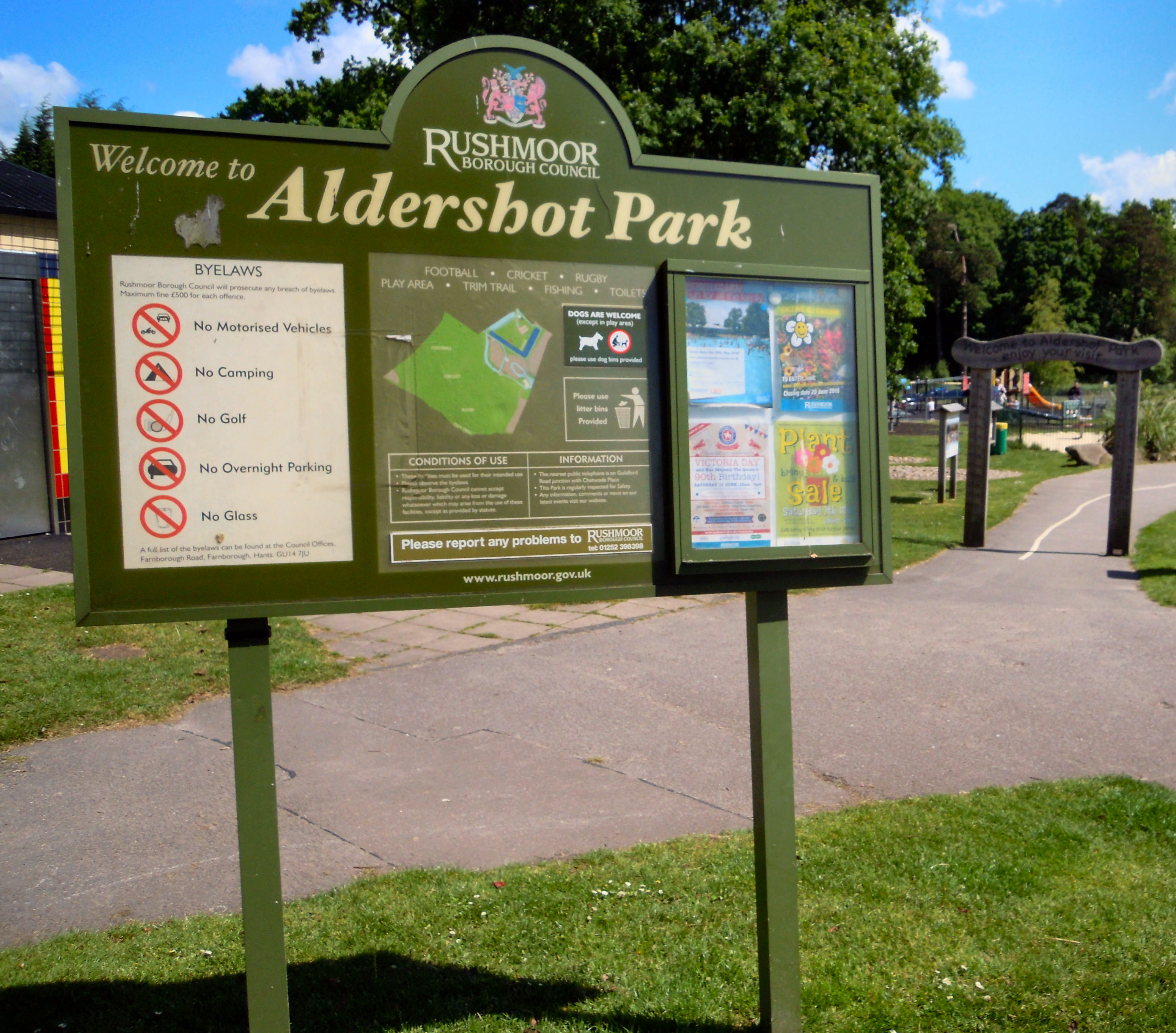 Information sign at Aldershot Park in Aldershot in Hampshire